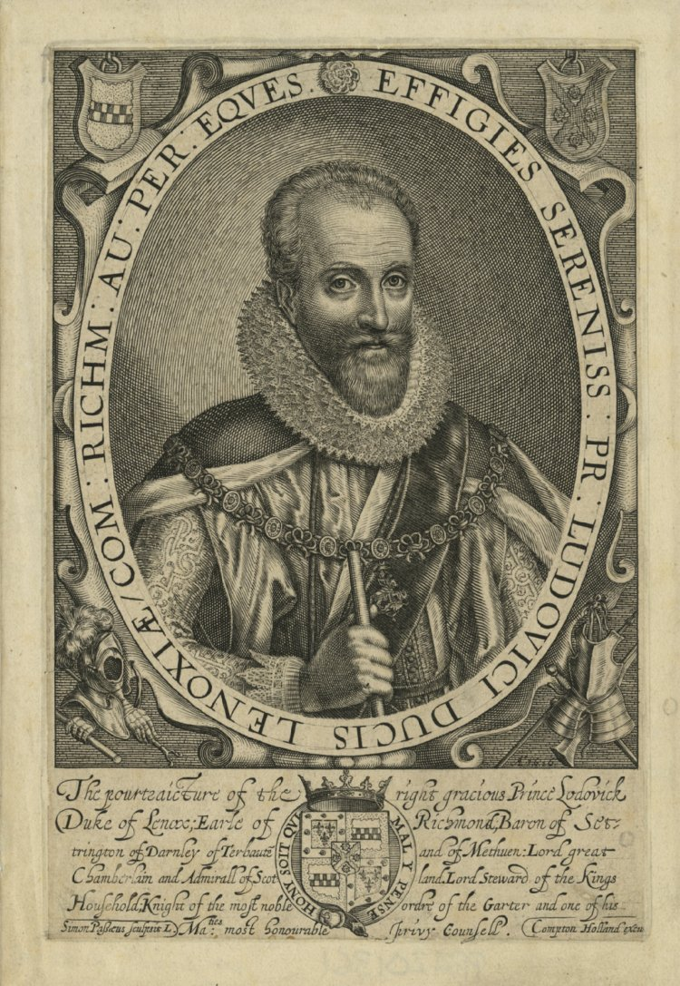 "The pourtraicture of the right gracious Prince Lodovick Duke of Lenox," portrait of Ludovic Stewart, 2nd Duke of Lennox and 1st Duke of Richmond, by the British engraver Simon van de Passe. 176 mm x 118 mm. Courtesy of the British Museum, London.